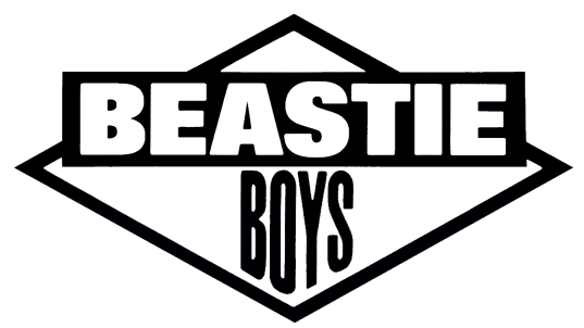 Beastie Boys logo used circa 1985-1986.